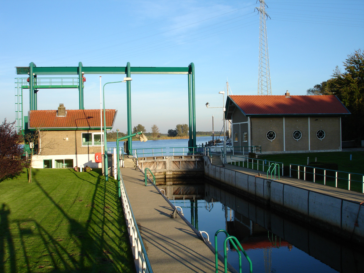 Canal lock in the Noordoostpolder, the Netherlands.